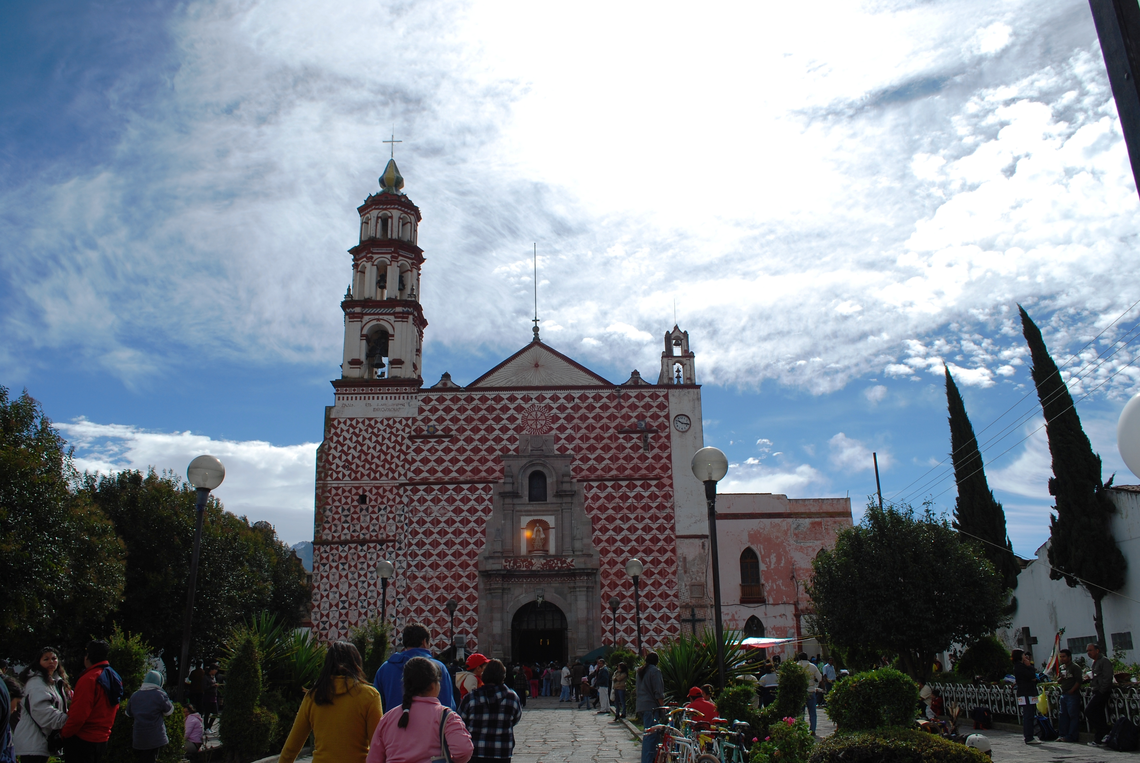 Facade of the La Asuncion Church in Amecameca, Mexico State